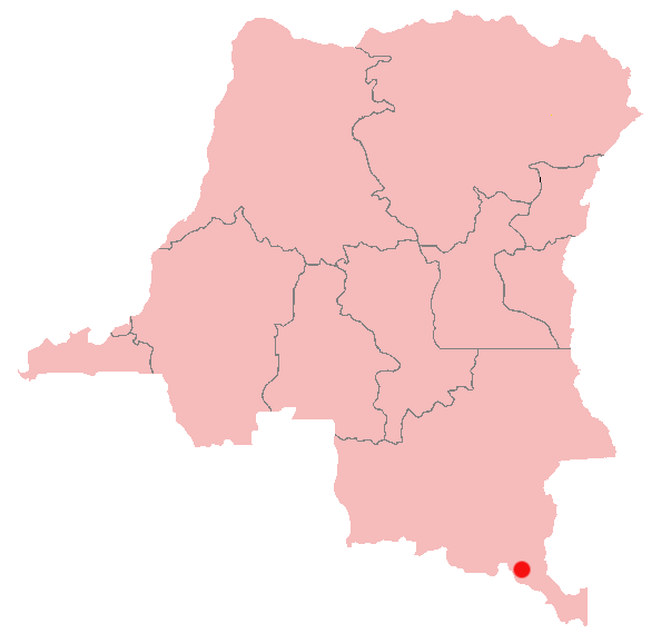 Lubumbashi, Democratic Republic of the Congo Location Map; created with the GIMP. Made by User:Acntx.